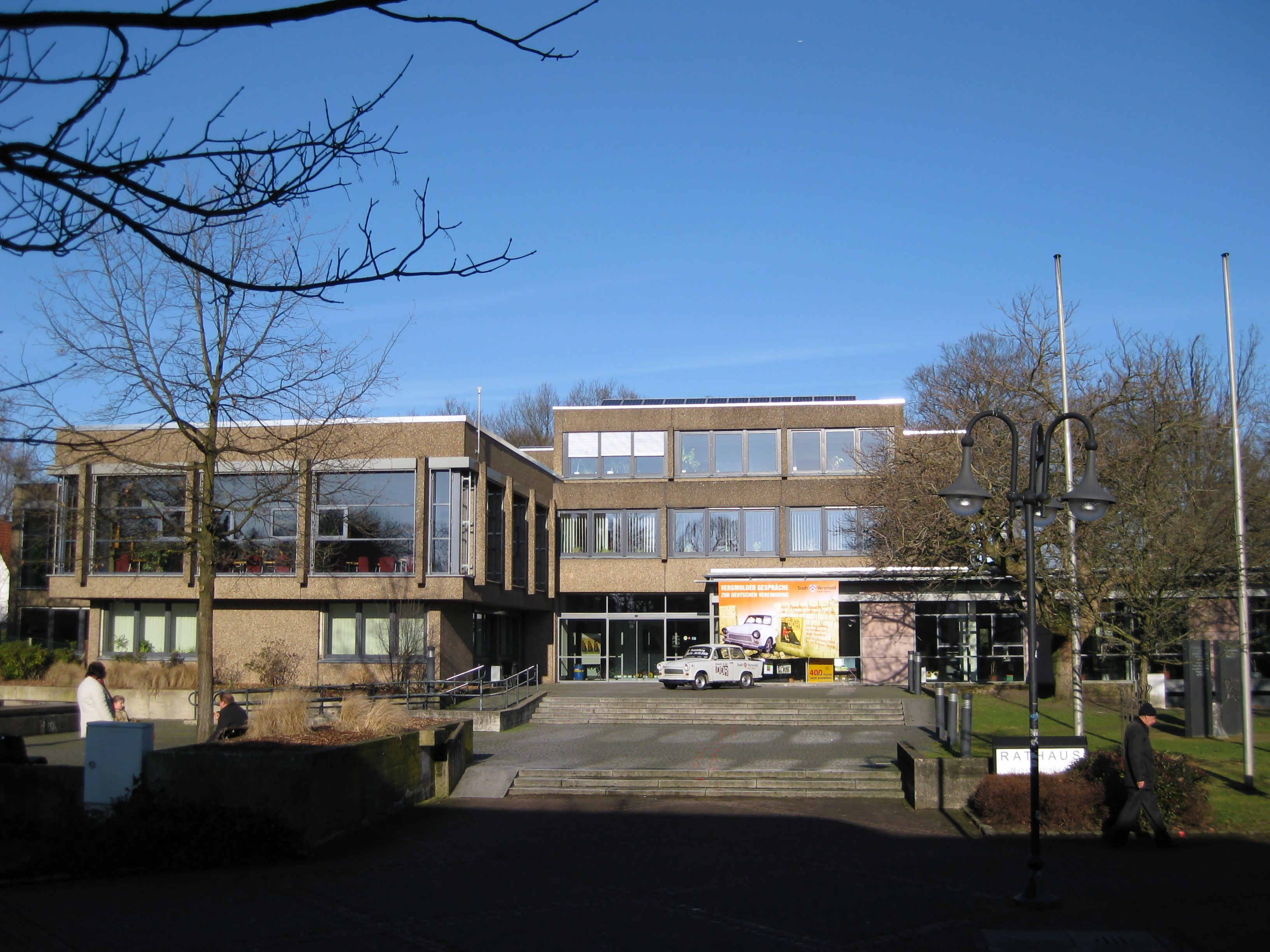 Town Hall in Versmold